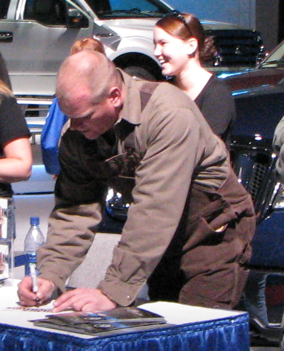 CIAS - Mike Holmes - Ford Booth